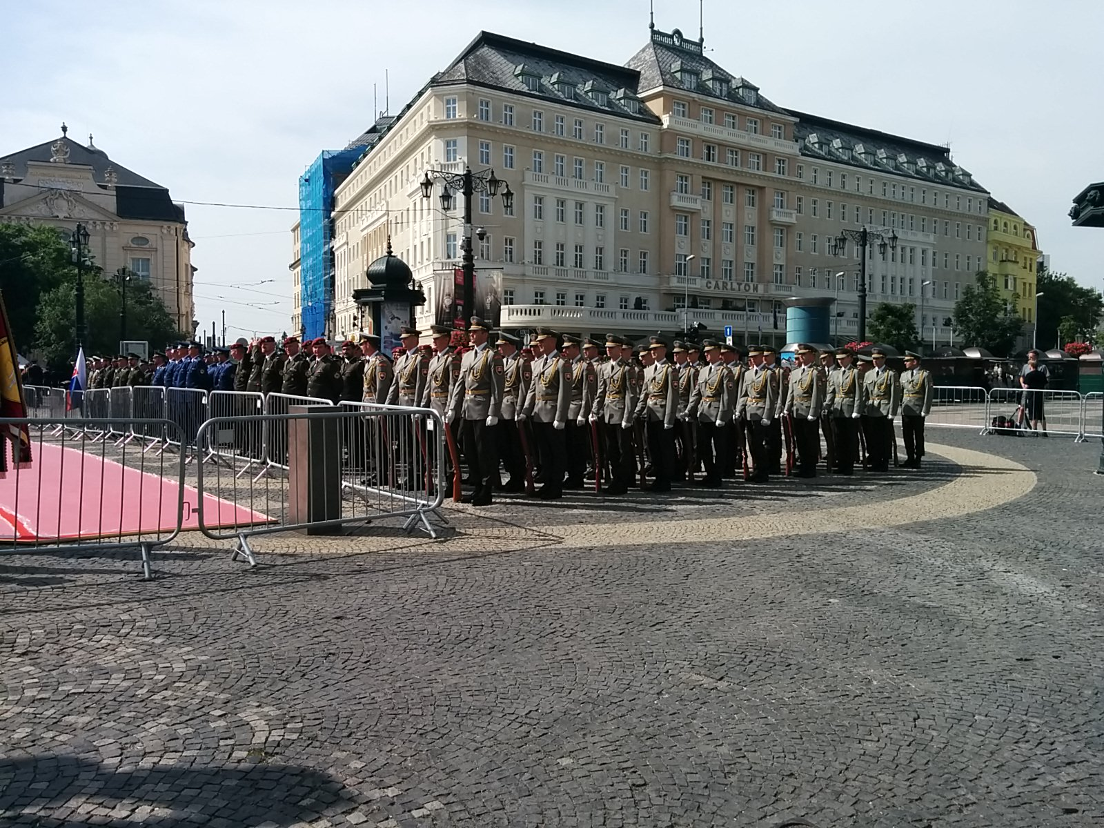 Slovak Armed Forces units during the rehearsal for the Presidential Inauguration of Zuzana Čaputová on 15 June 2019.